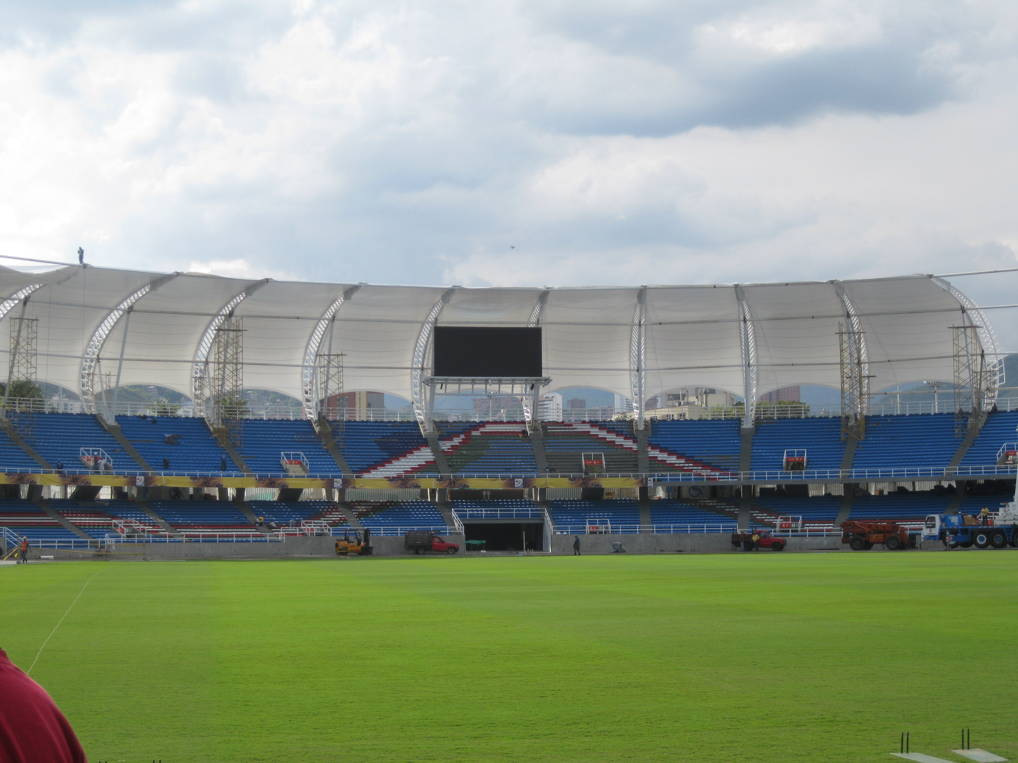 Photo of Pascual Guerrero stadium's north side, days before FIFA U-20 World Cup 2011 kick-off